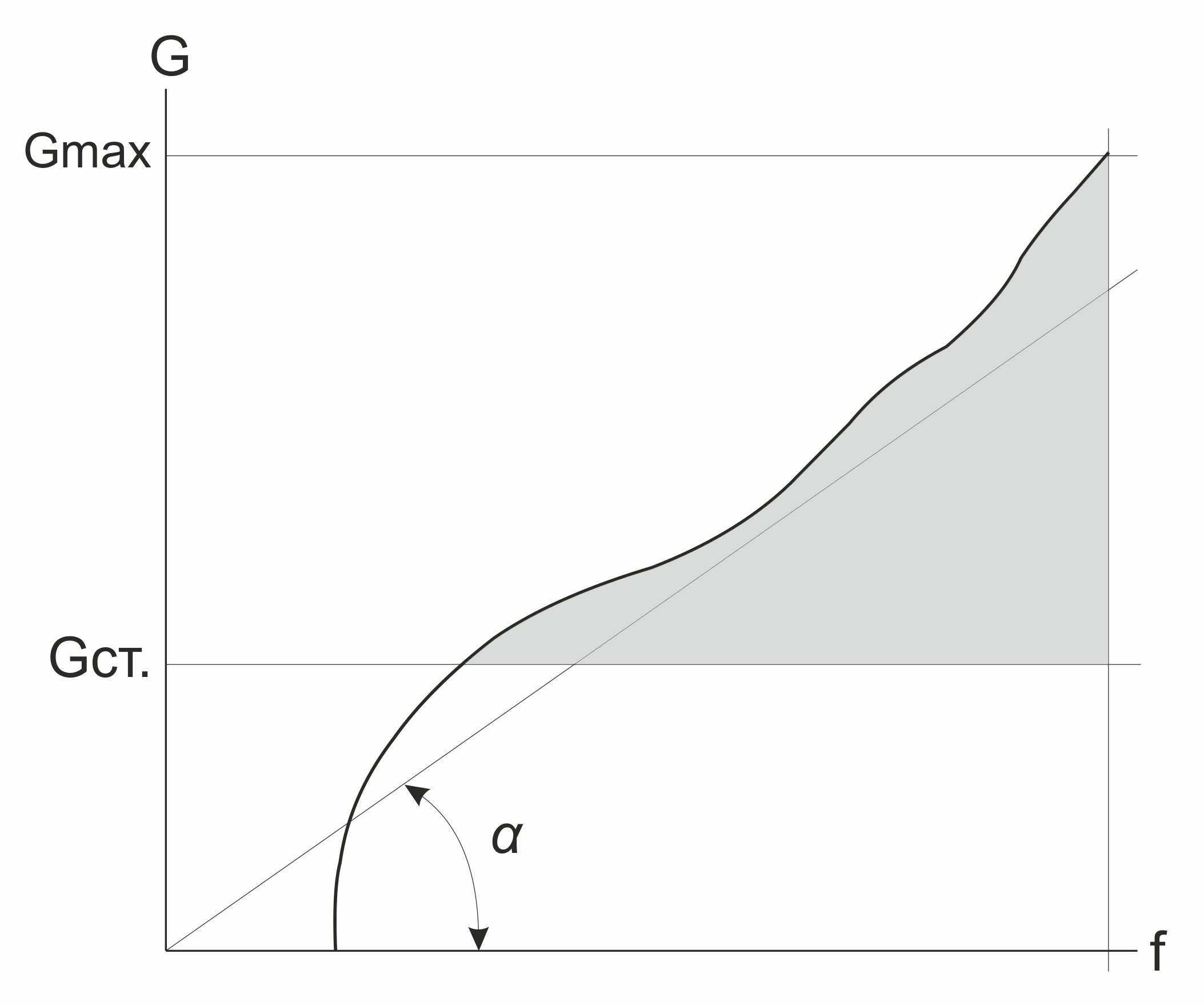 Car suspension elasticity diagram